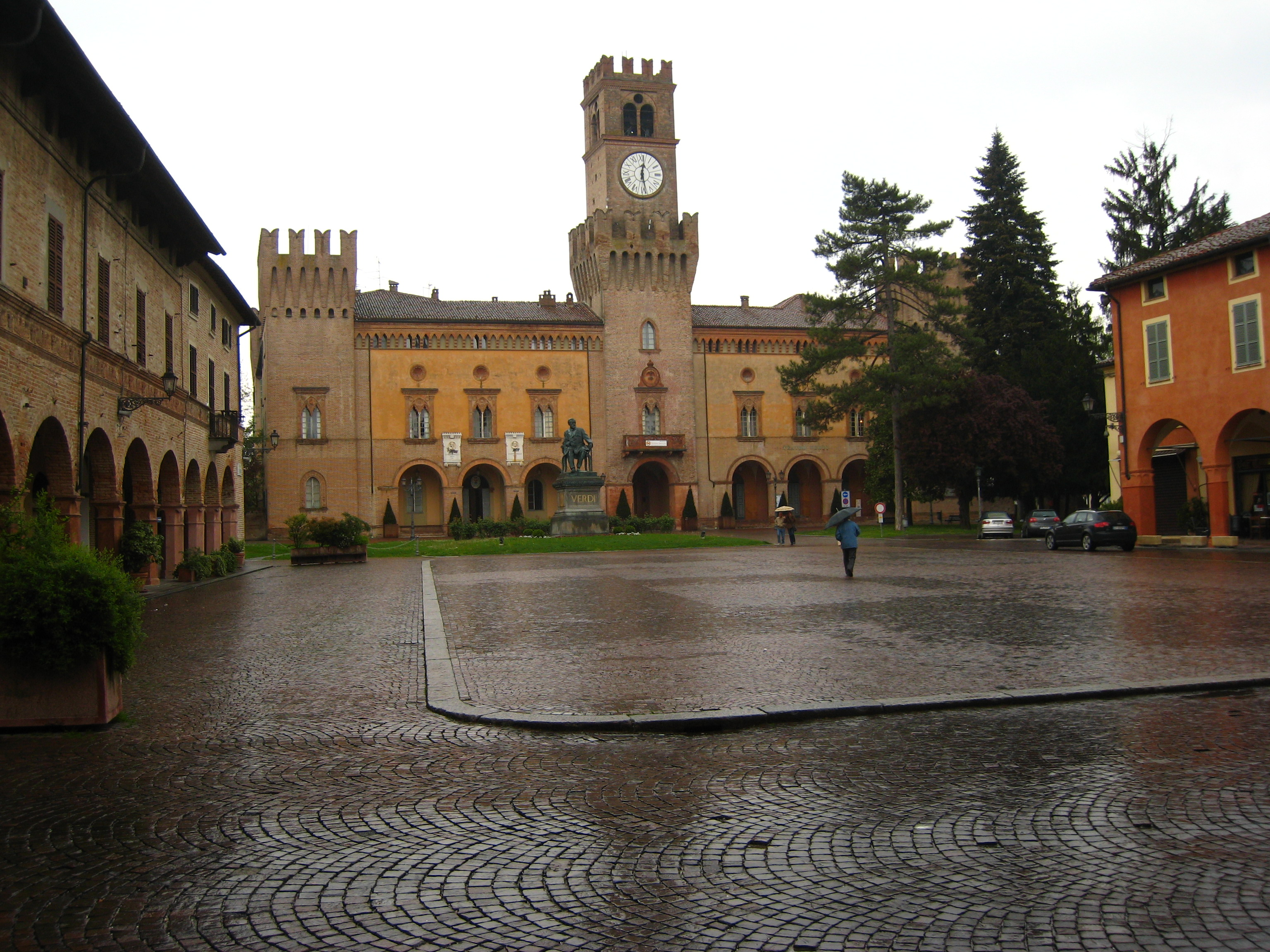 Italy - Busseto - Verdi square